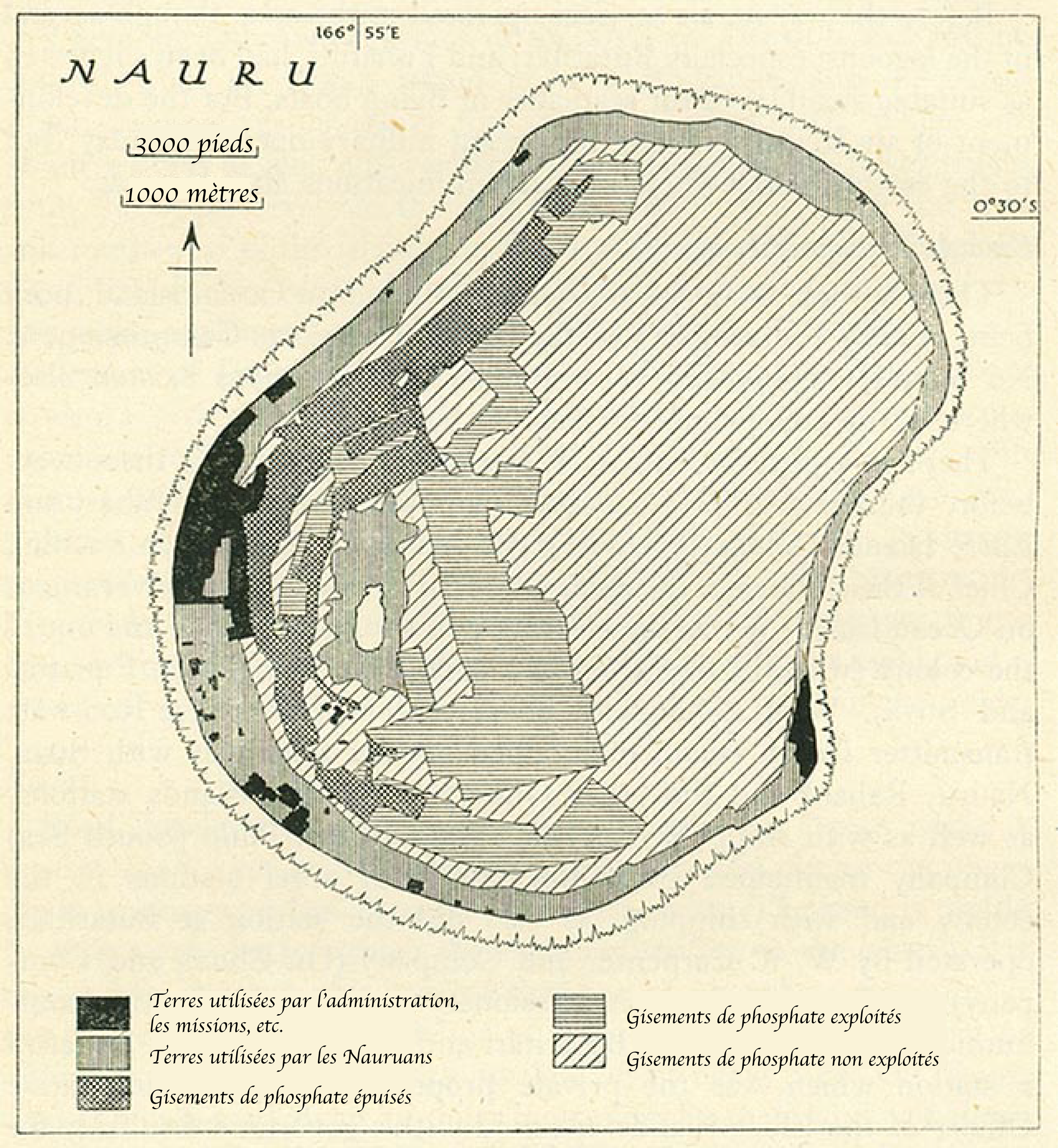 Nauru land utilization, 1940 original description: Fig. 100: Nauru: land utilisation The close relation between the physical features of the island and the use made of the land can be seen by comparison with Fig. 89. Based on Commonwealth of Australia 'Report to the Council of the League of Nations on the administration of Nauru' for 1939, end map (Canberra, 1940).